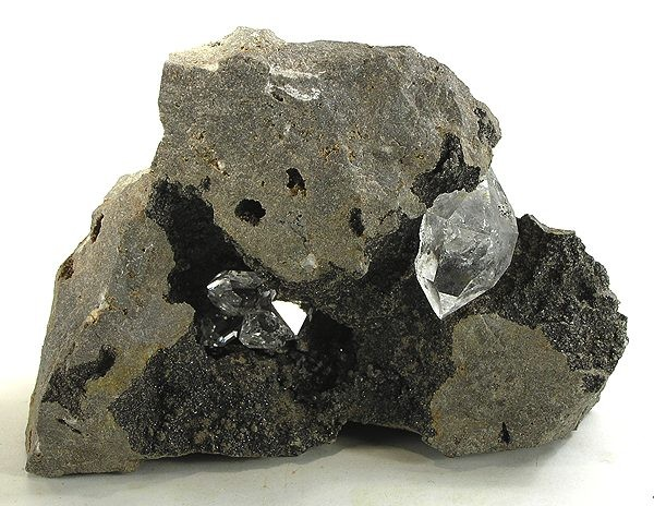 Quartz (Var.: Herkimer Diamond) Locality: Herkimer County, New York, USA (Locality at ) Size: 13.4 x 9.2 x 7.4 cm. These quartz crystals are commonly called "Herkimer Diamonds" for their gem-like intensity, the equal of any quartz in the world. Here, from the collection of Ed David, is a pocket of crystals that really do look like a little pile of diamonds -- with a larger, if less intense, crystal in a shallow channel on the periphery of the pocket. The large crystal is around 3 cm, for scale. Matrix specimens are hard to obtain, especially with crystals of any quality. The work required to extract them is enormous!